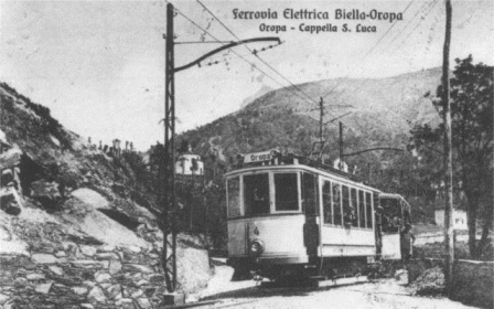 Biella-Oropa tramway, Cappella S. Luca